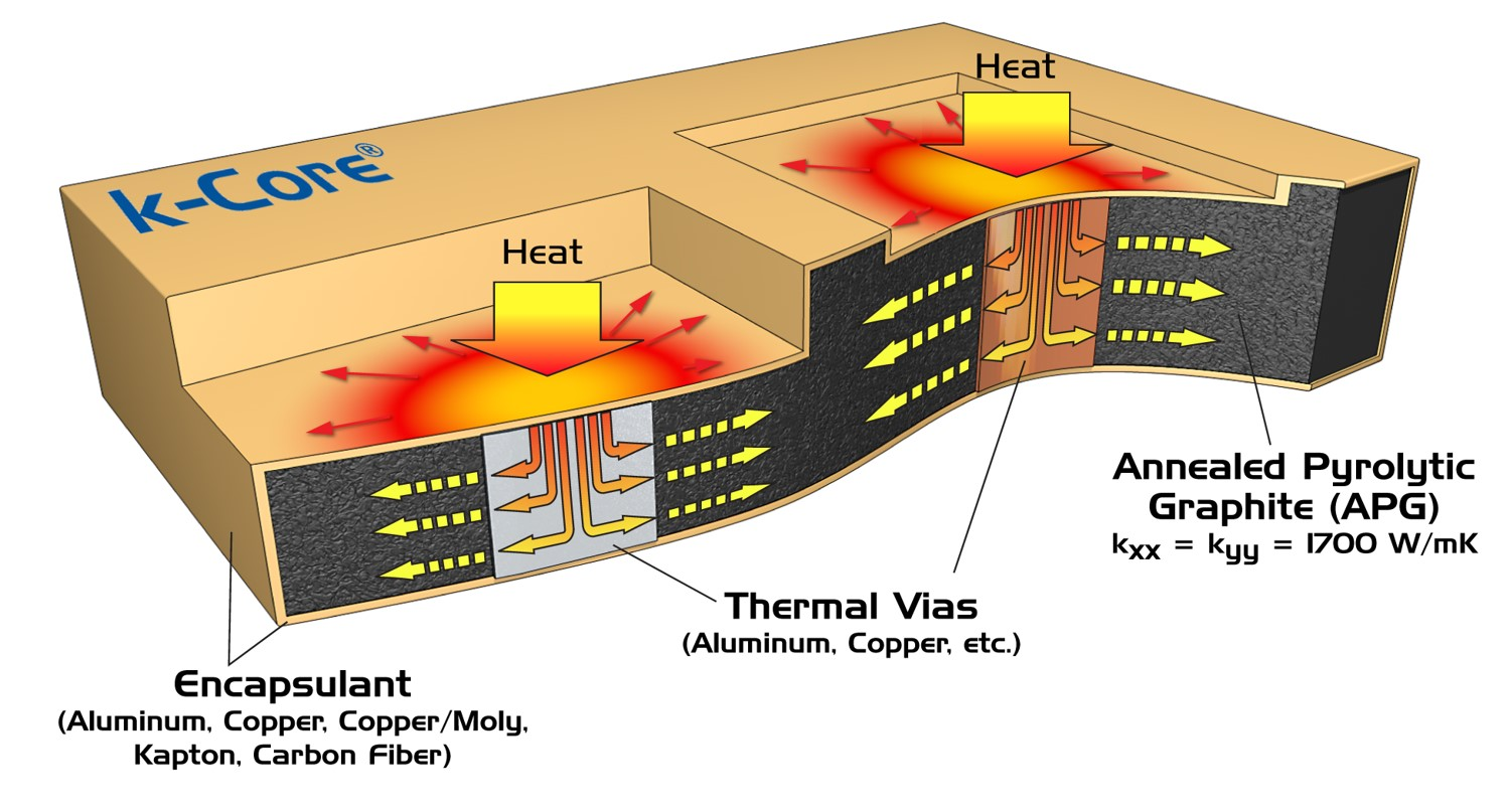 Example of a k-Core Assembly composed of APG that has been encapsulated in copper, with aluminum and copper thermal vias.